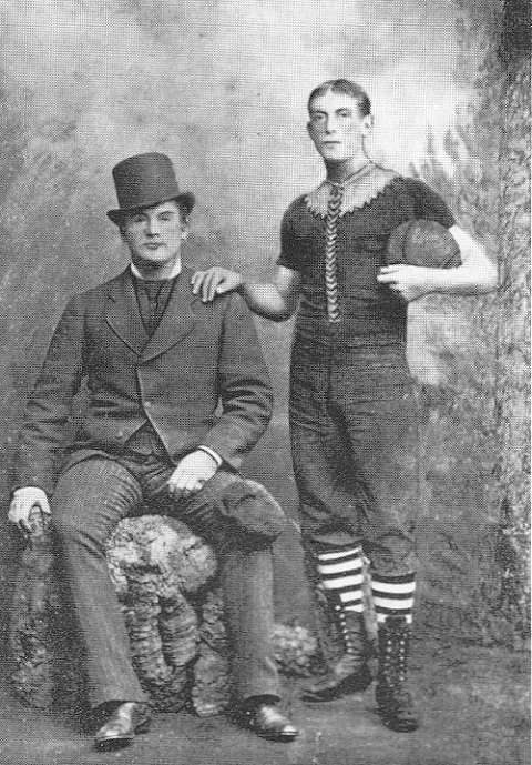 Studio portrait of Carlton footballer George Coulthard (right) with Carlton club secretary E. A. Prevot.